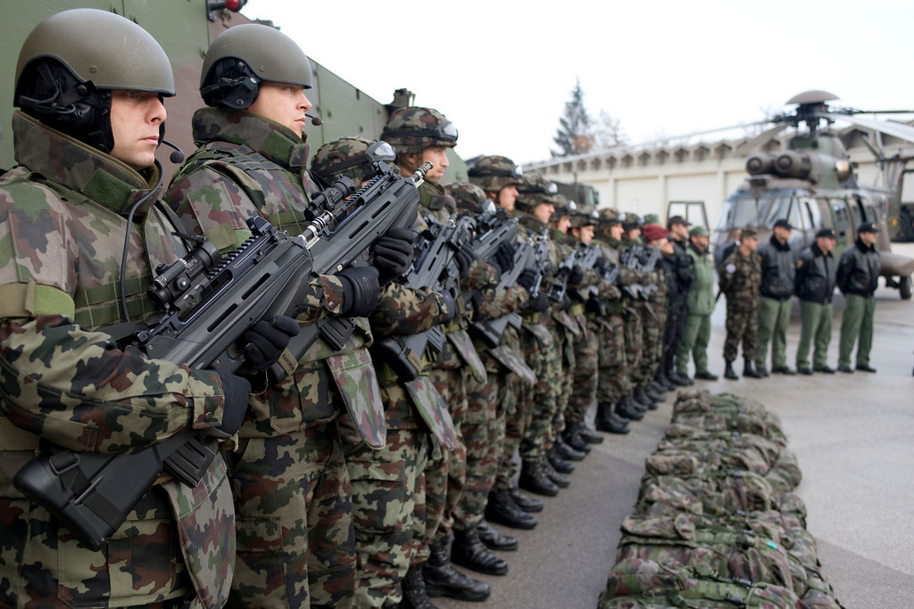 VRHNIKA, Slovenia -- Soldiers of the Slovenian Armed Forces, Joint Forces Command Headquarters here stand in formation during an operational brief for Admiral James G. Stavridis, Supreme Allied Commander Europe, U.S. European Command commander, Nov. 13. the Admiral made a two day visit to the country to meet with the top defense leaders. (U.S. Army photo by Sergeant Intisar Sabree)